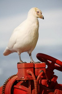 White-faced Sheatbill sitting on firefighting equipment